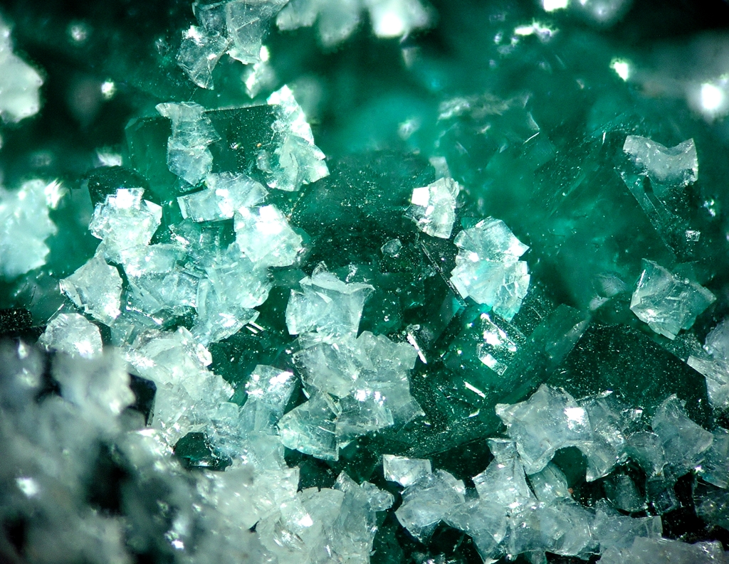 Minrecordite (colorless) und Dioptase (green) - Locality: Tsumeb Mine (Tsumcorp Mine), Tsumeb, Otjikoto (Oshikoto) Region, Namibia - collected 1979, field of view 10 mm